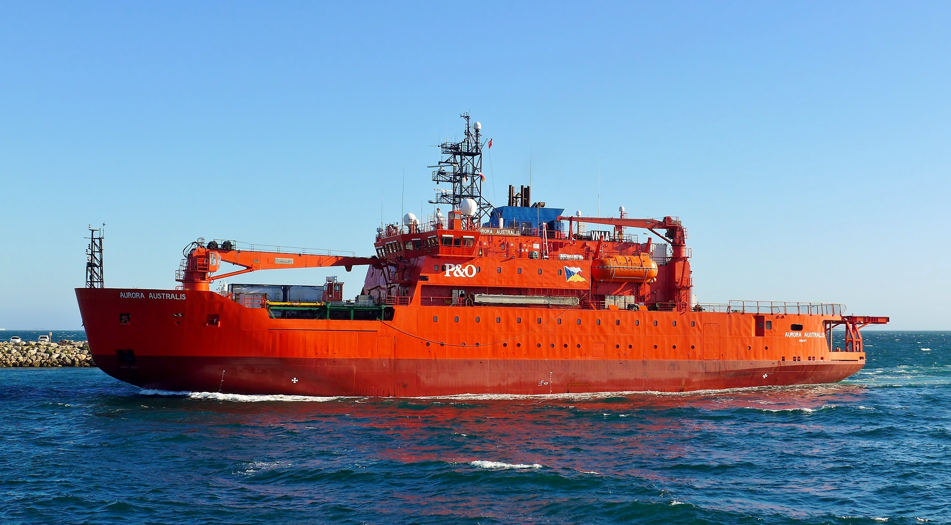 Aurora Australis, an Australian icebreaker, arriving at the inner harbour of the Port of Fremantle, Western Australia, to undergo repairs after breaking her moorings and running aground on rocks during a blizzard at Horseshoe Harbour, near Mawson Station, Antarctica.